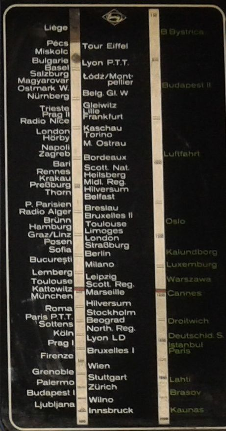 Scale of the radio Eumig 329w, 1939